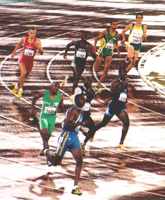 A wet 400m olympics 2000 avec Michael Johnson.